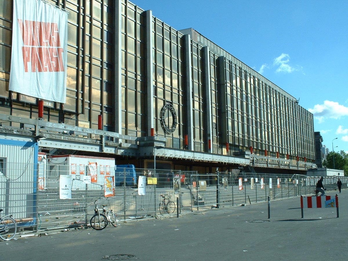 "Palast der Republik" in Berlin, Germany